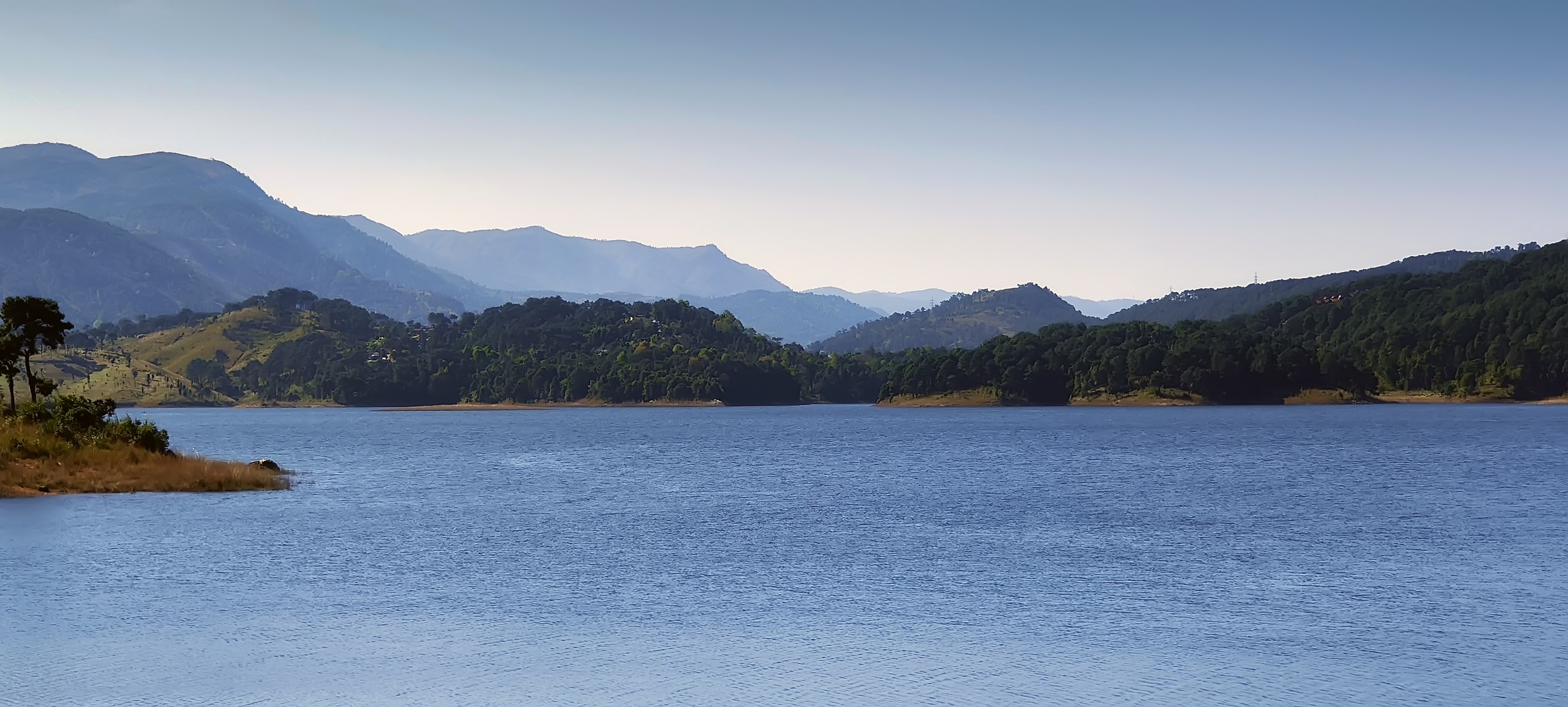 Umiam Lake (commonly known as Barapani Lake) is a reservoir in the hills 15 km (9.3 mi) north of Shillong in the state of Meghalaya, India. It was created by damming the Umiam River in the early 1960s. The principal catchment area of the lake and dam is spread over 220 square km.